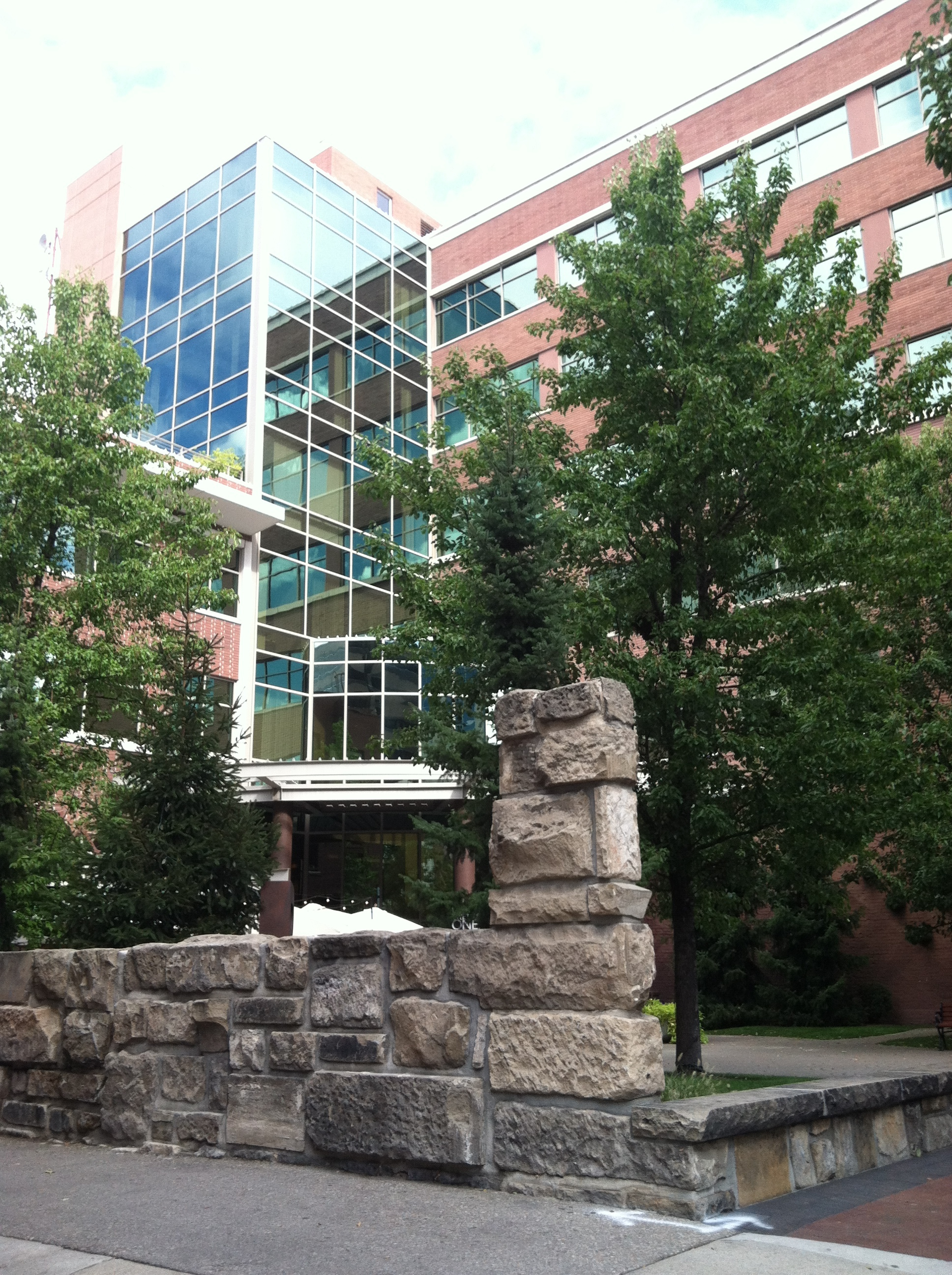 A small piece of the facade and a decorative architectural element are all that remain of the Ada Odd Fellows Temple, which occupied 109-115½ North 9th Street, Boise, Idaho, USA. Designed by John E. Tourtellotte & Co., 1903-1907.